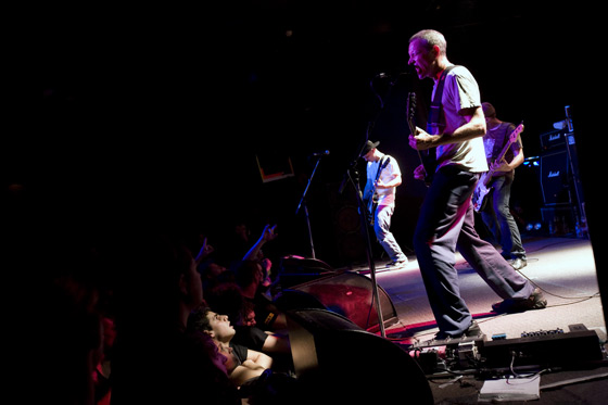 Helmet The Hifi Bar, Melbourne May 2008